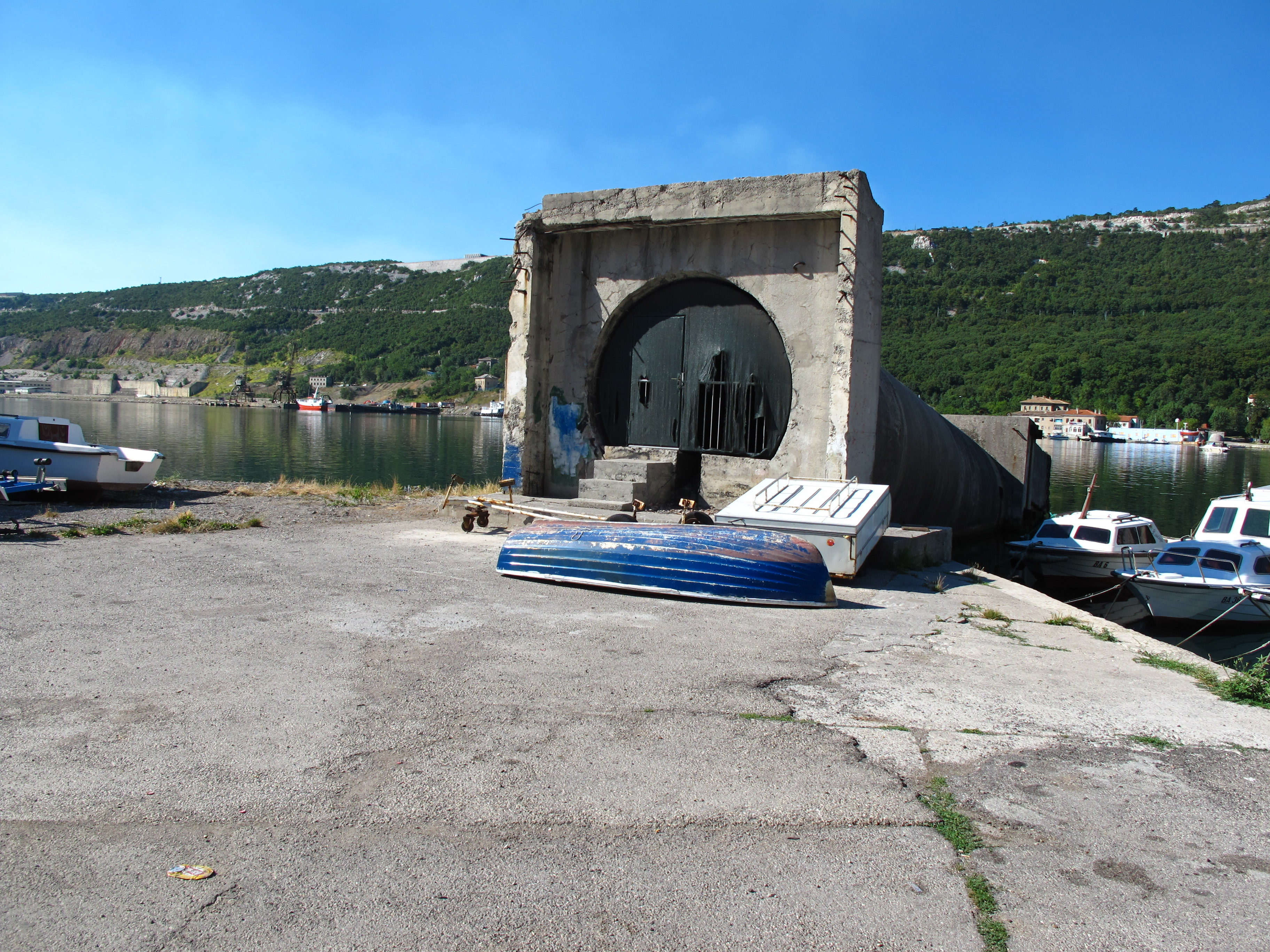 Tunnel for transportation of coal through the port basin in Barkar at Bay of Bakar / Croatia / Adriatic Sea. In the background, the site of the former coke plant Koksara Bakar.